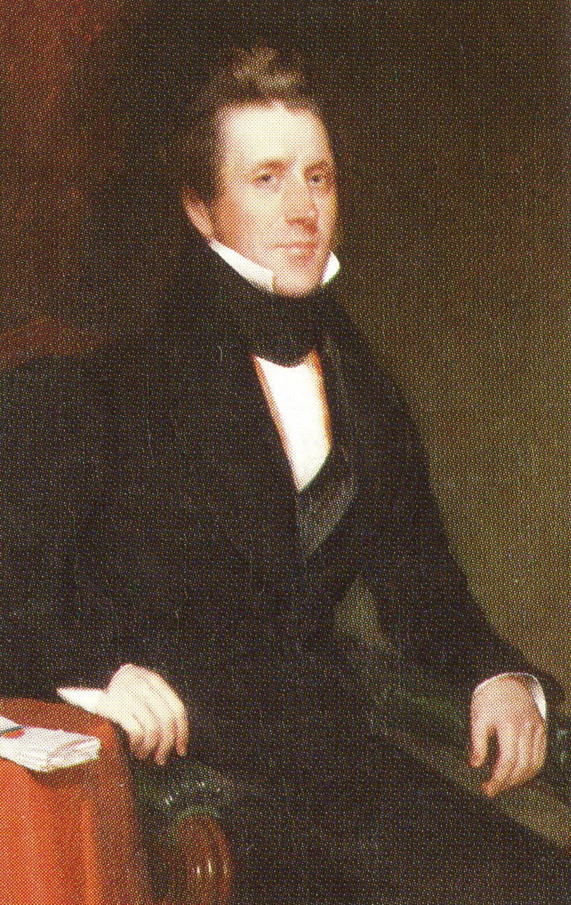 Kirk Boott (1791-1837); early American businessman from Boston, Massachusetts, involved in the establishment of the textile industry in Lowell, Massachusetts.